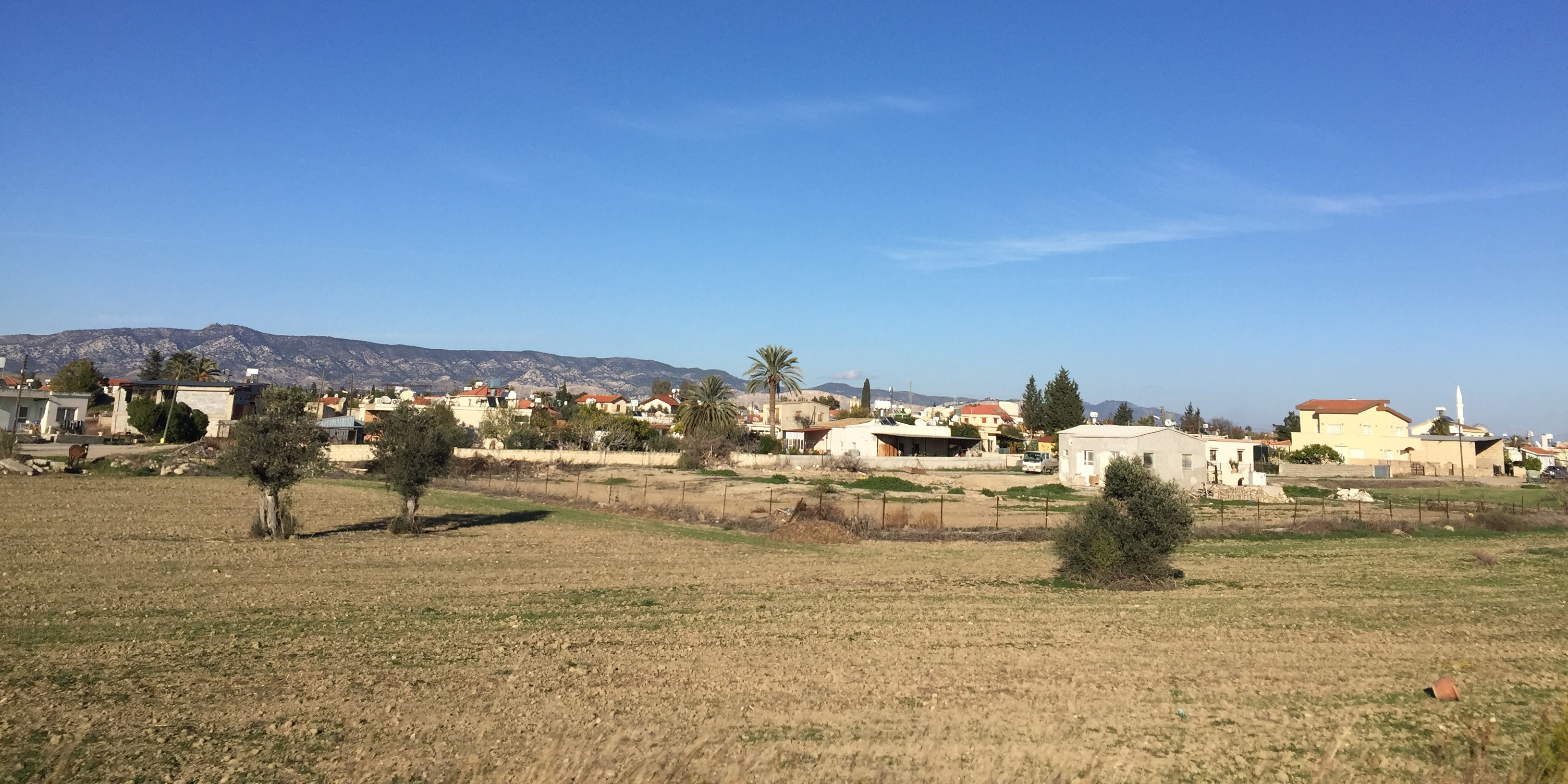 A general view of the village of Lefkoniko/Geçitkale (Lefkonuk) in Northern Cyprus.